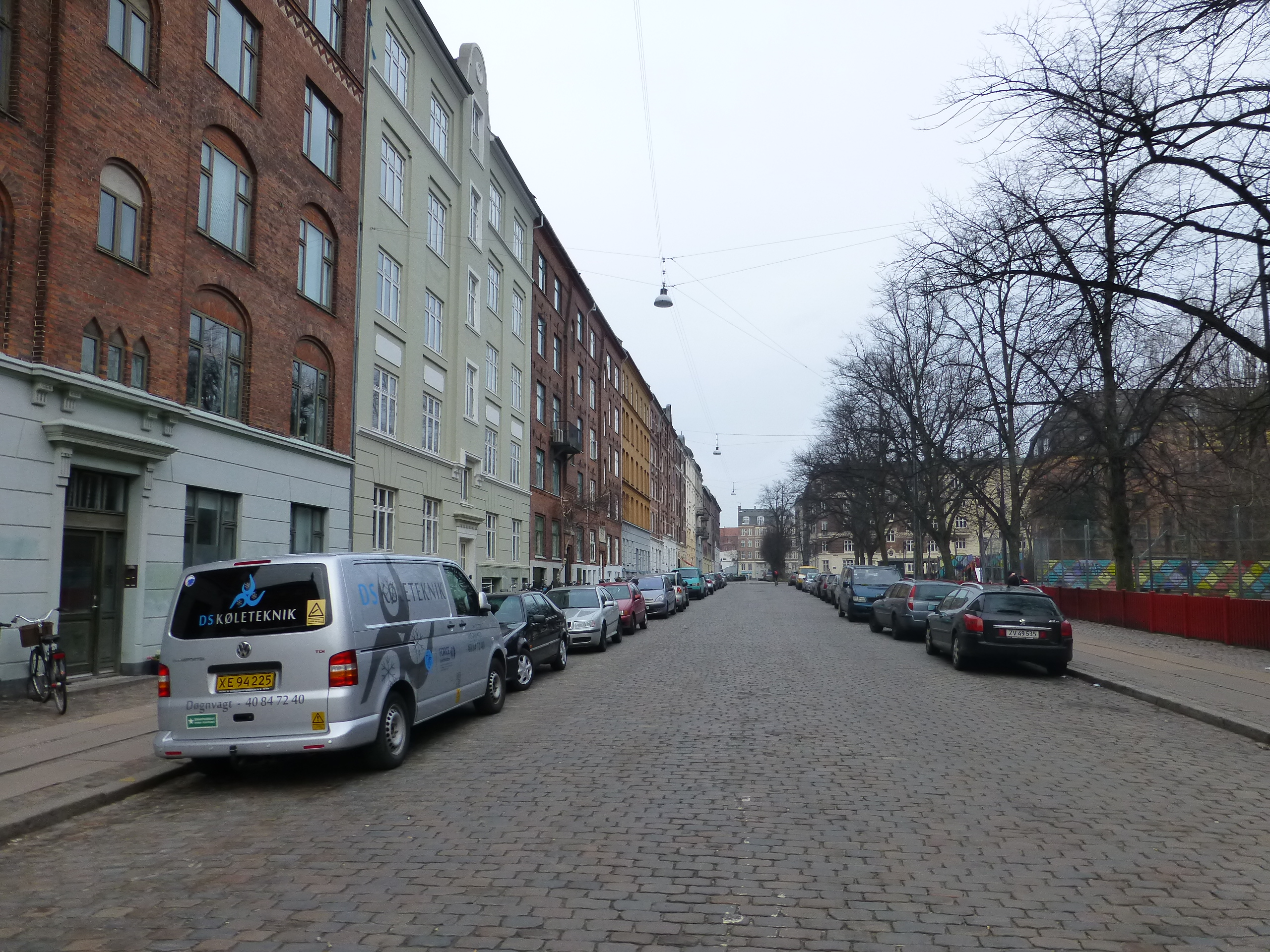 Baldersgade is a street in Nørrebro in Copenhagen.